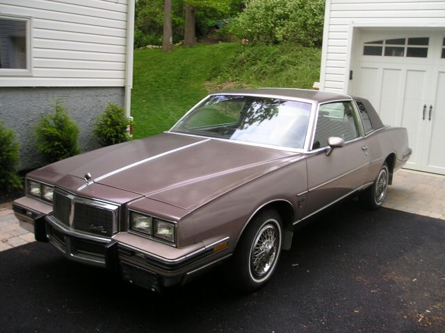 My stock 1983 Pontiac Grand Prix